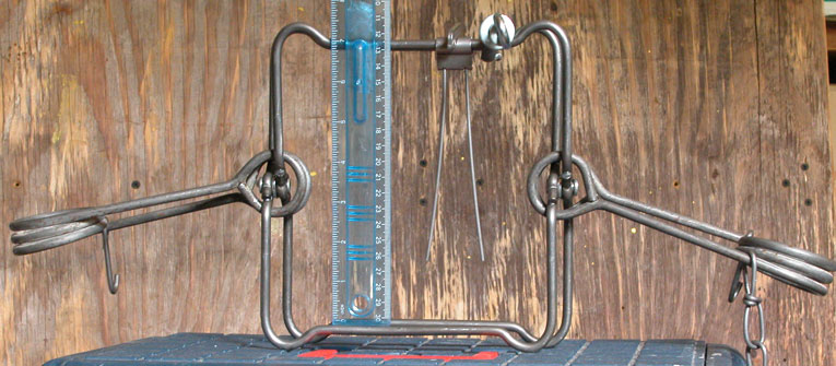 Conibear model 220 body-gripping trap, set. The round device on top right is a safety tool that prevents harm to the trapper while setting the trap; it is removed to activate the trap. The ruler shows a 6-7/8 inch jaw opening between the flat portions of the jaws.